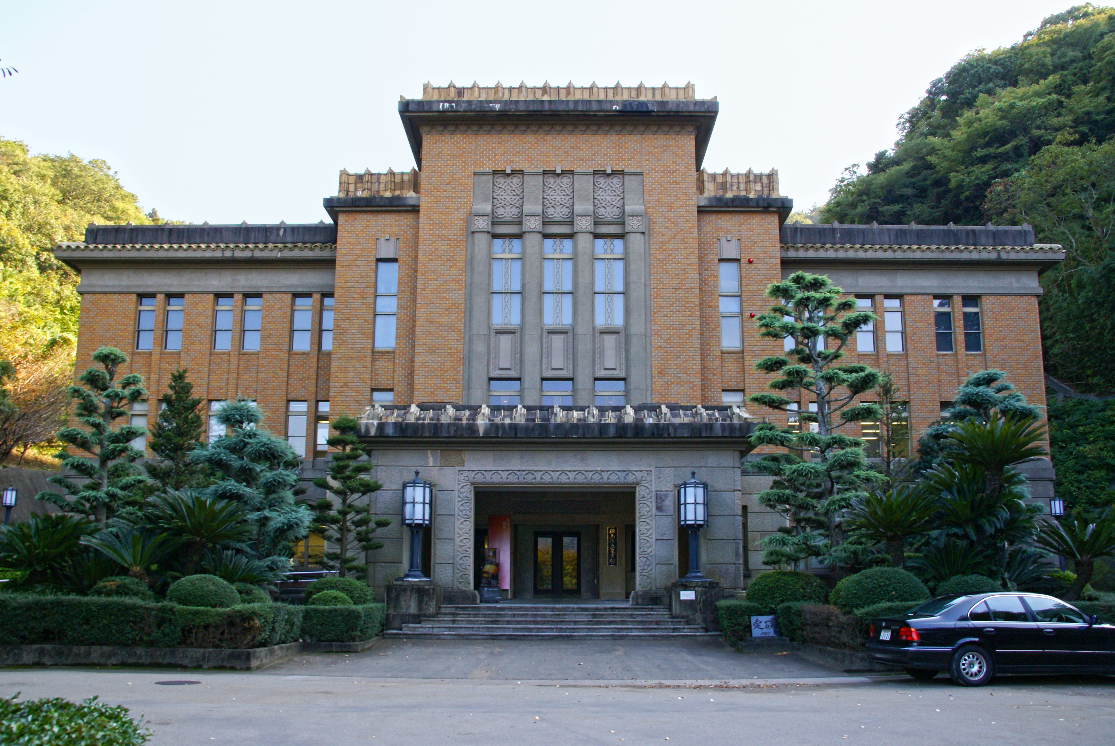 Tokushima Prefectural Archives of Tokushima Bunka-no-Mori Park in Tokushima, Tokushima prefecture, Japan